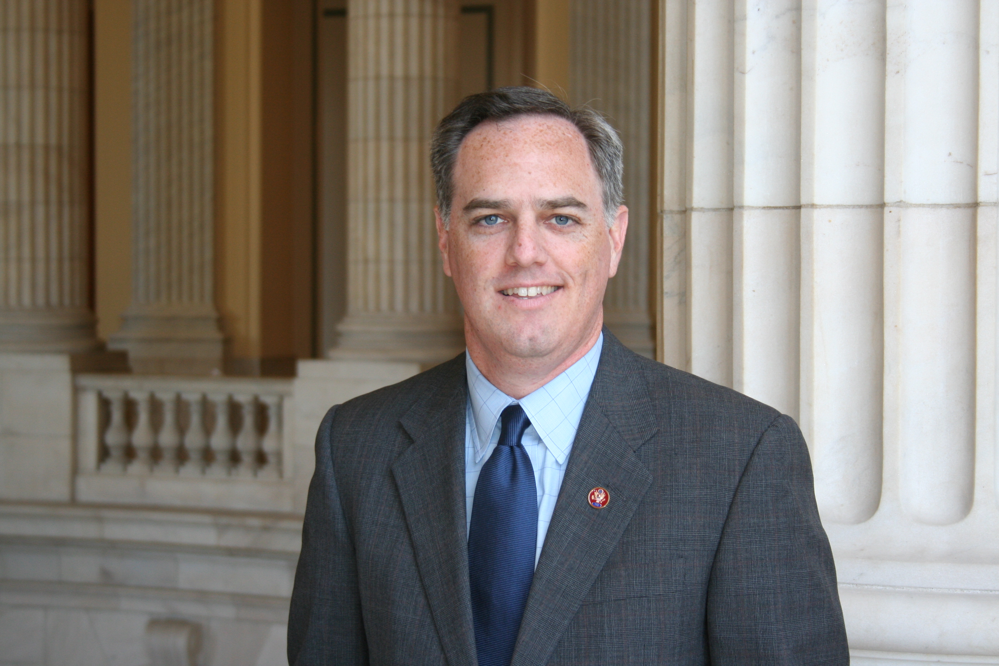 Official congressional portrait of Rep. Mike Ferguson (R - New Jersey)